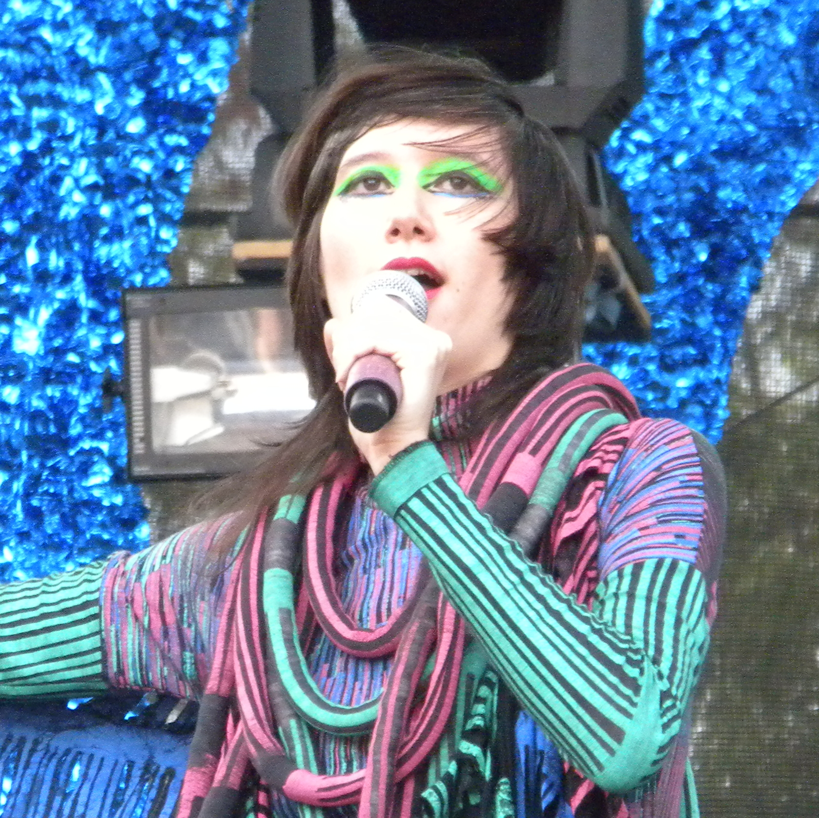 Karen O performing with her band Yeah Yeah Yeahs at Bumbershoot '09